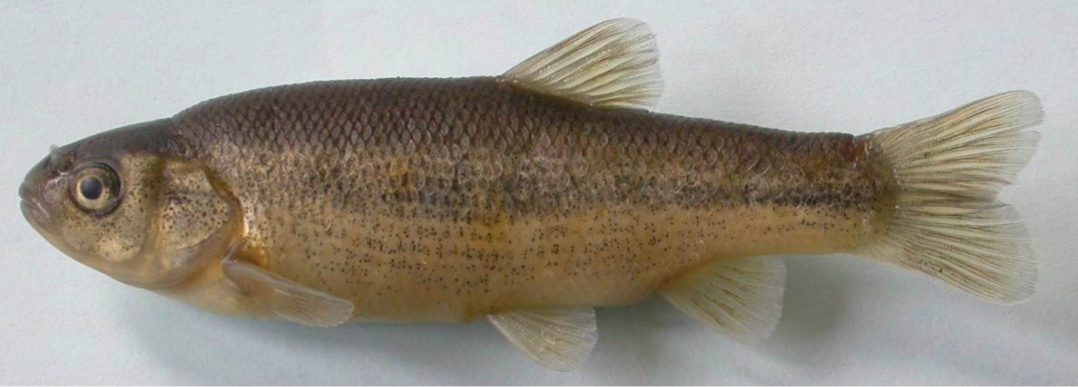 Pseudophoxinus ninae IFC-ESUF 0263, 66.37 mm SL; Turkey: Pınargözü Spring-Bucak.